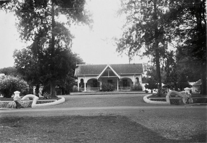 The house of the Resident